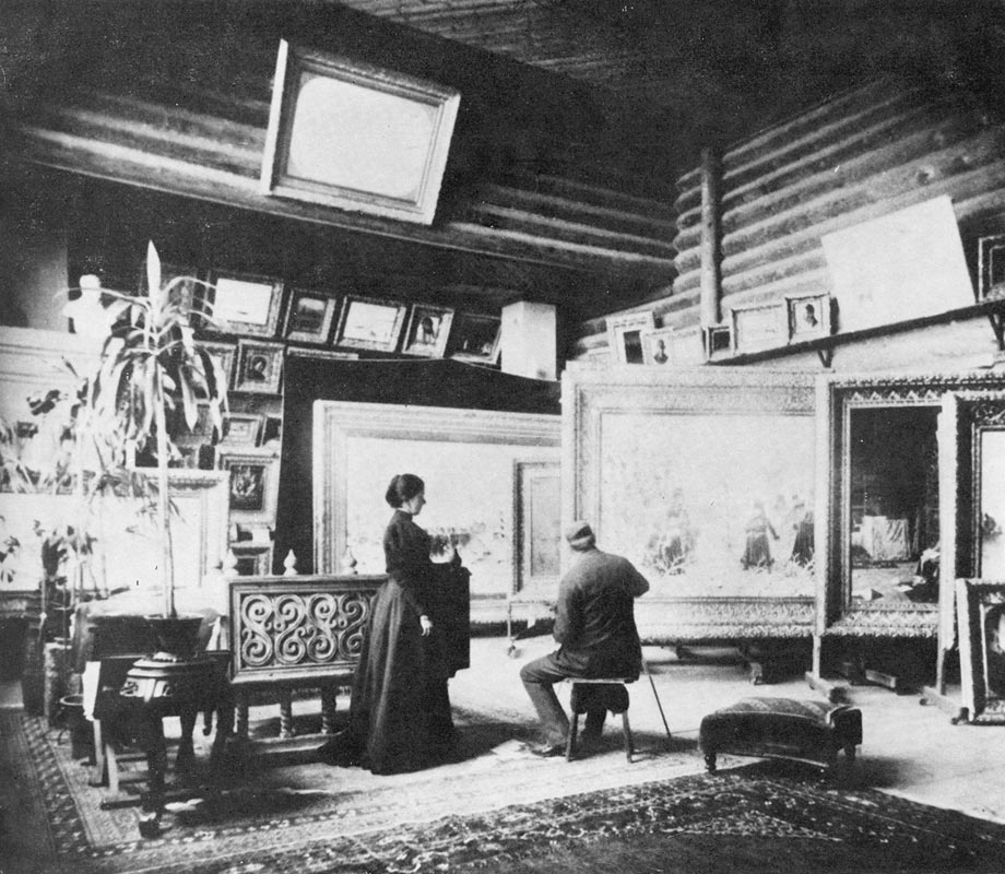 Vasily Vereshchagin in his atelier